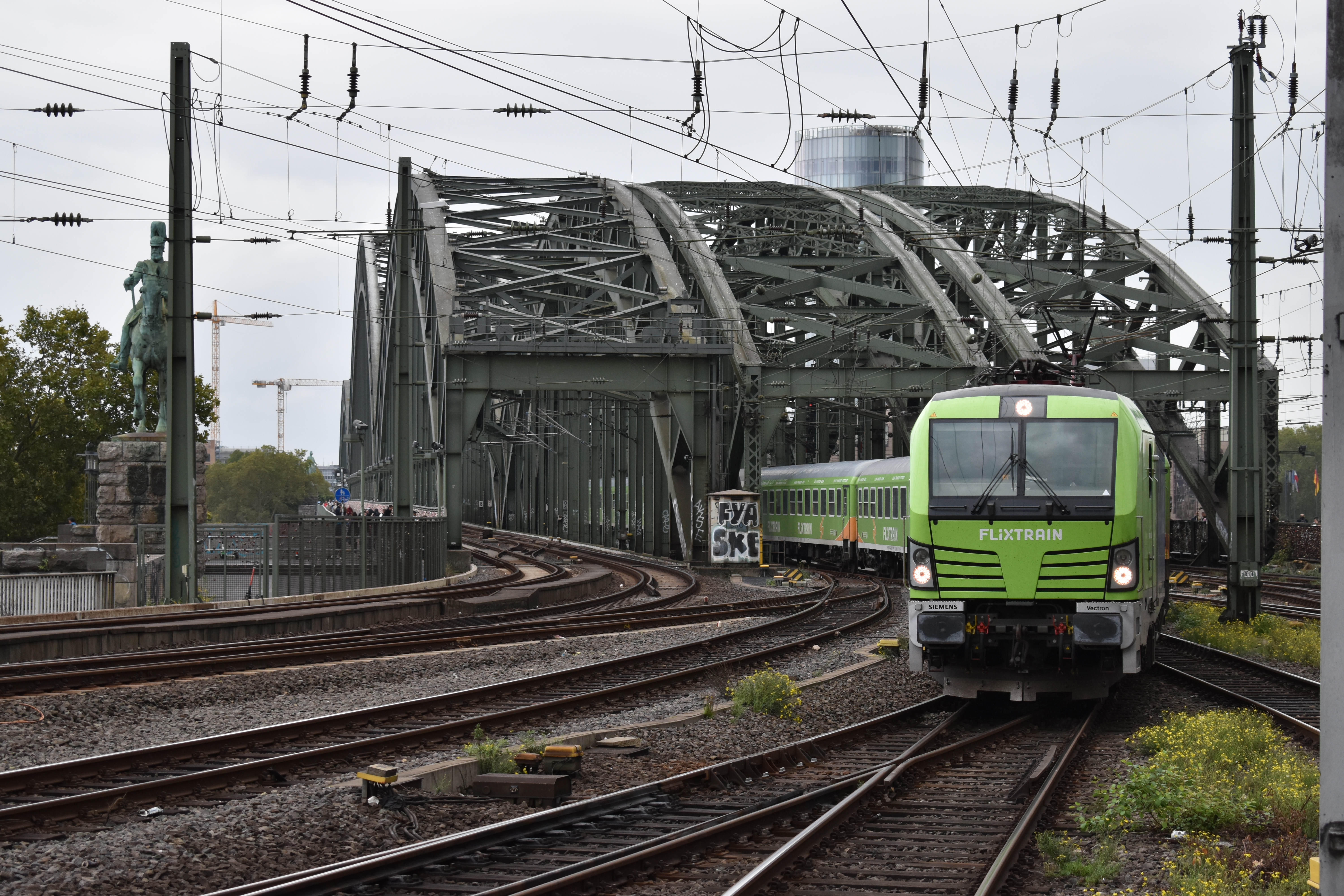 A flixtrain from Hamburg enters the Cologne main station.